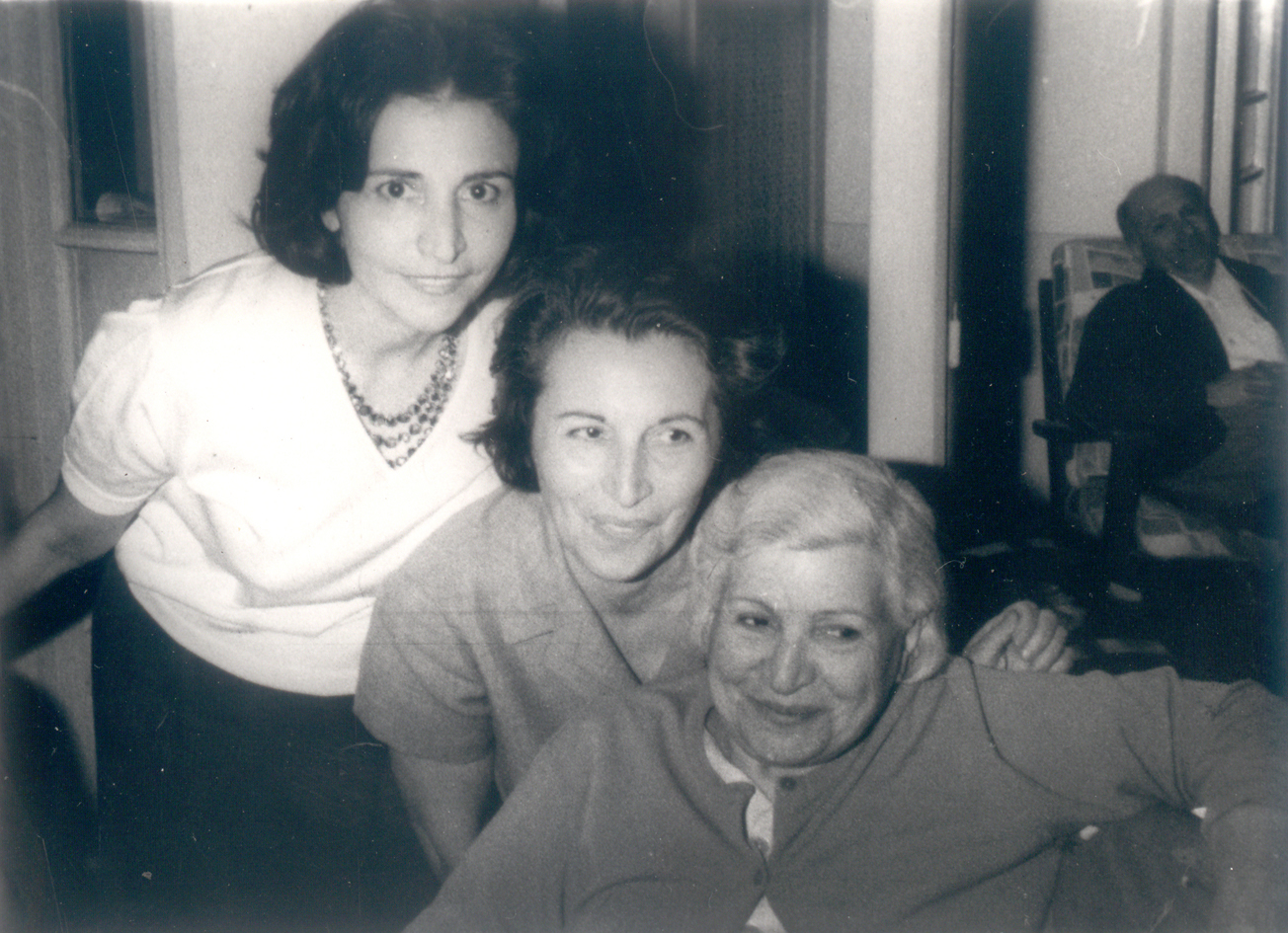 this is considered in public domain now because its copyright condition has been already expired in Iran. according to the "National law in support of authors, composers and artists" ratified in 01/01/1970 and published in 01/02/1970, the license for photographs and films after their issuing date is valid for 30 years.